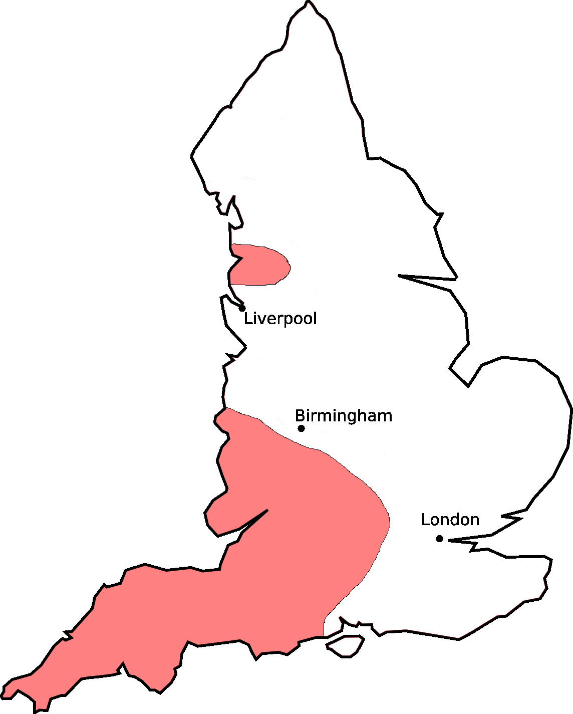 Map of rhoticity (pronounced non-prevocalic "r") in modern, i.e. late 20th century dialects in England